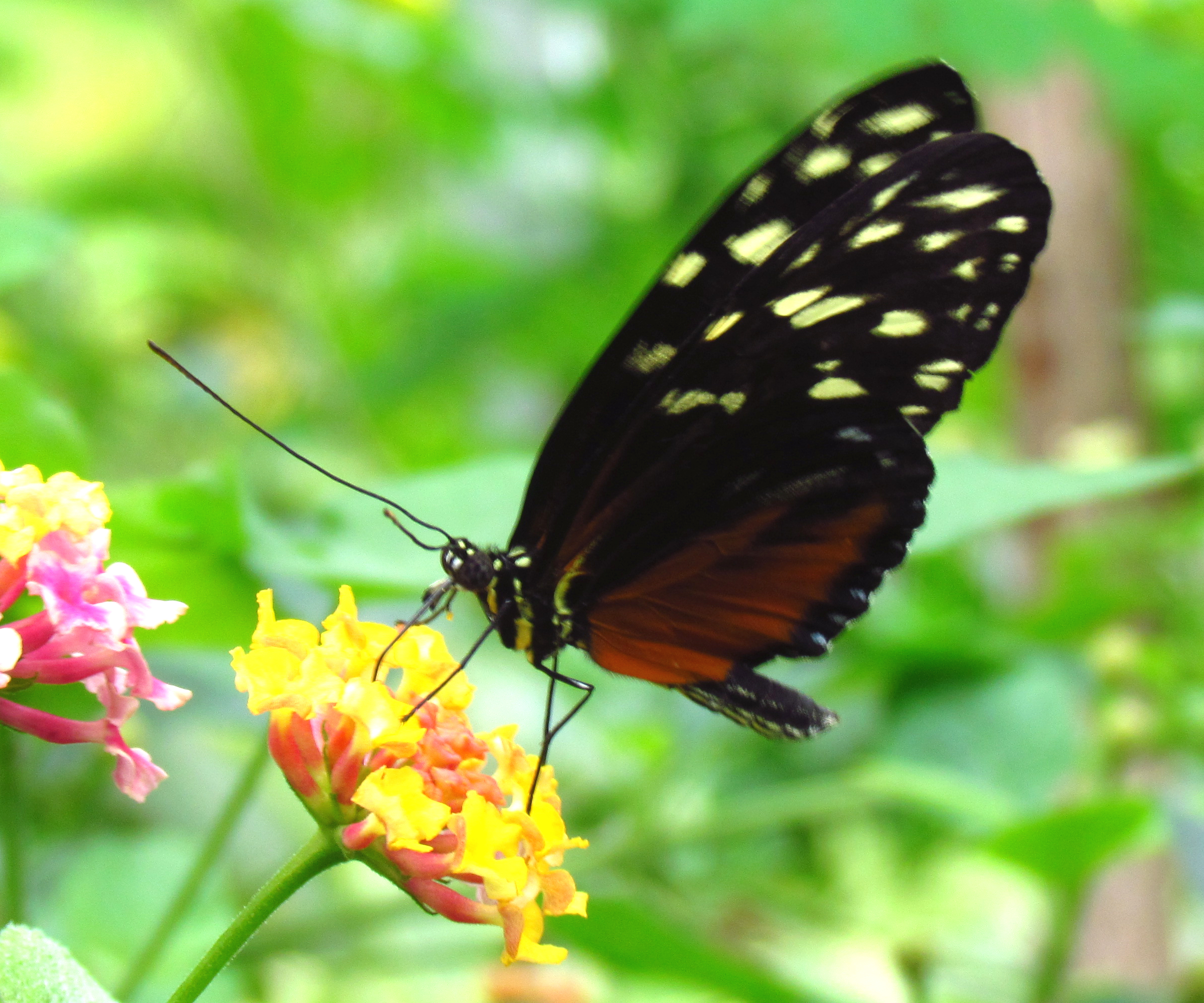 Tiger Longwing (Heliconius hecale)